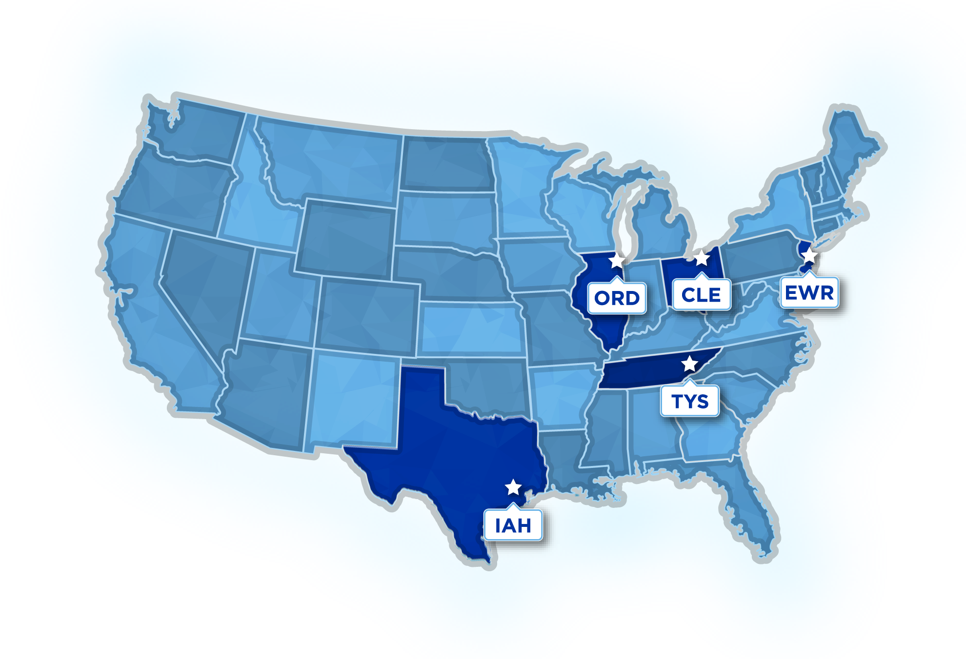 XJT Domiciles 2019